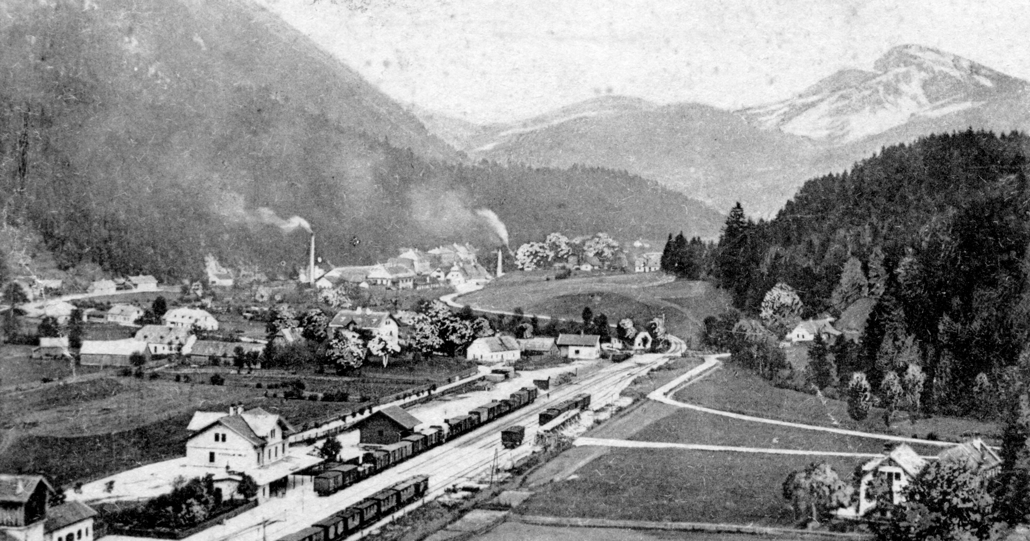 St. Aegyd am Neuwalde train station in Lower Austria, scan from a picture postcard